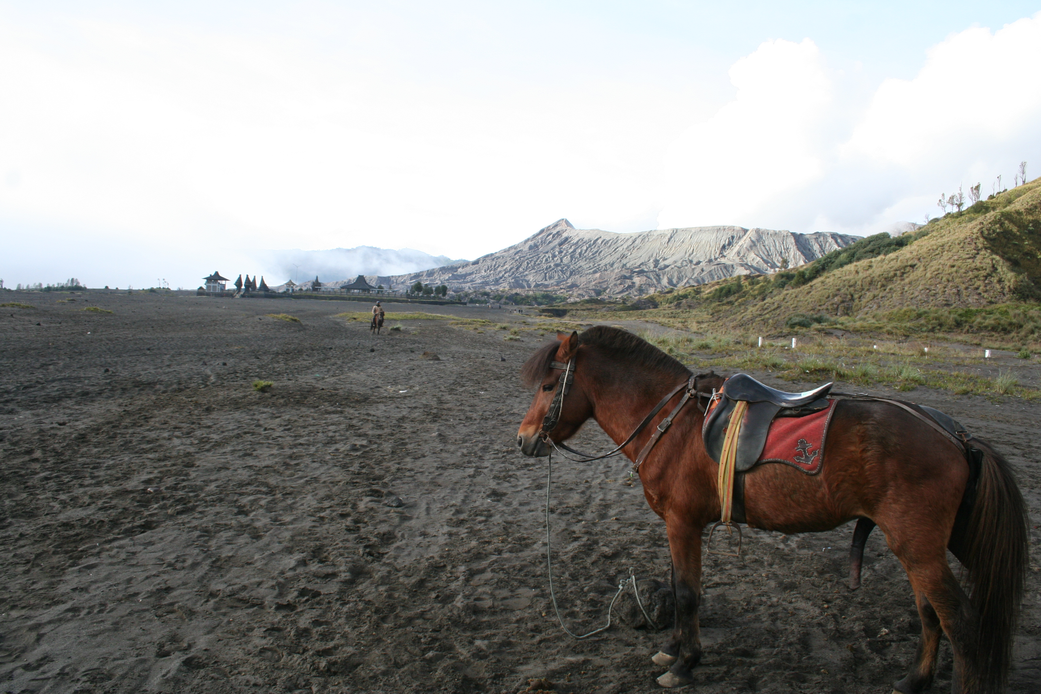 My trusty steed, G. Bromo, Java